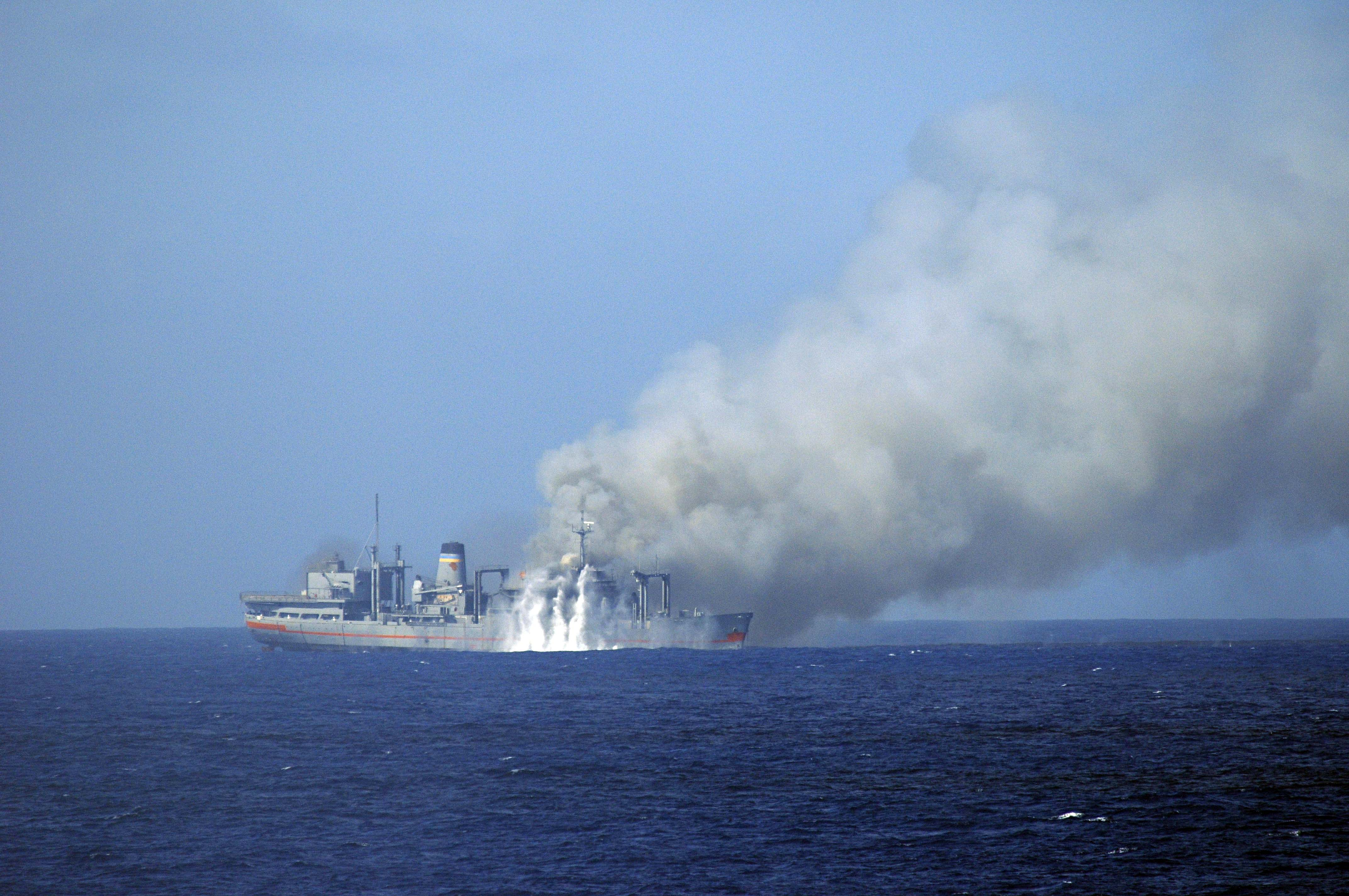 ATLANTIC OCEAN (Oct. 27, 2010) Rounds from a Mk-15 Phalanx Close-in Weapon System (CIWS) from the guided-missile destroyer USS Mitscher (DDG 57) impact the ex-USNS Saturn during a sinking exercise. Mitscher and other ships assigned to the George H.W. Bush Carrier Strike Group fired live ammunition at Saturn. (U.S. Navy photo by Mass Communication Specialist Seaman Leonard Adams/Released)